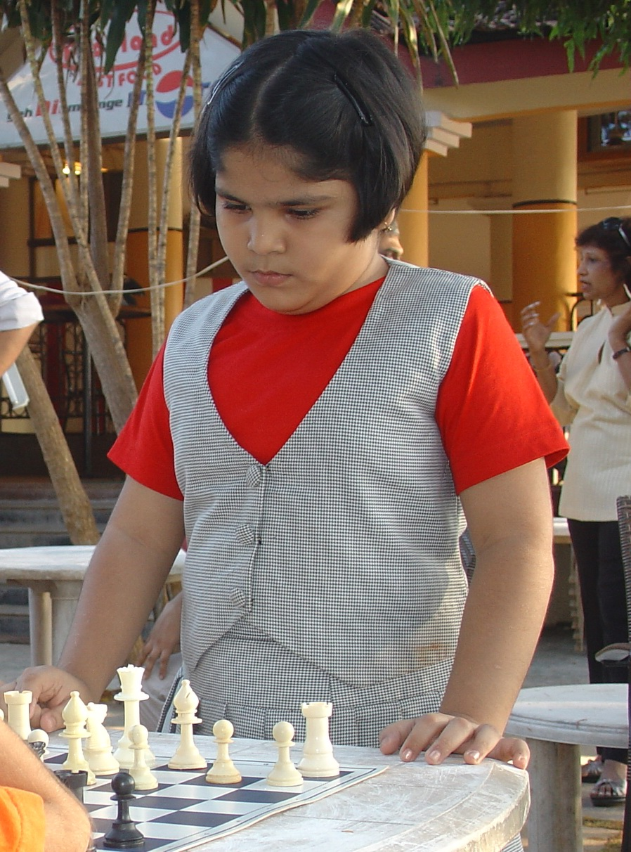 India’s youngest World Chess Champion Ivana Furtado, GoaNet Meet - Dec 2007